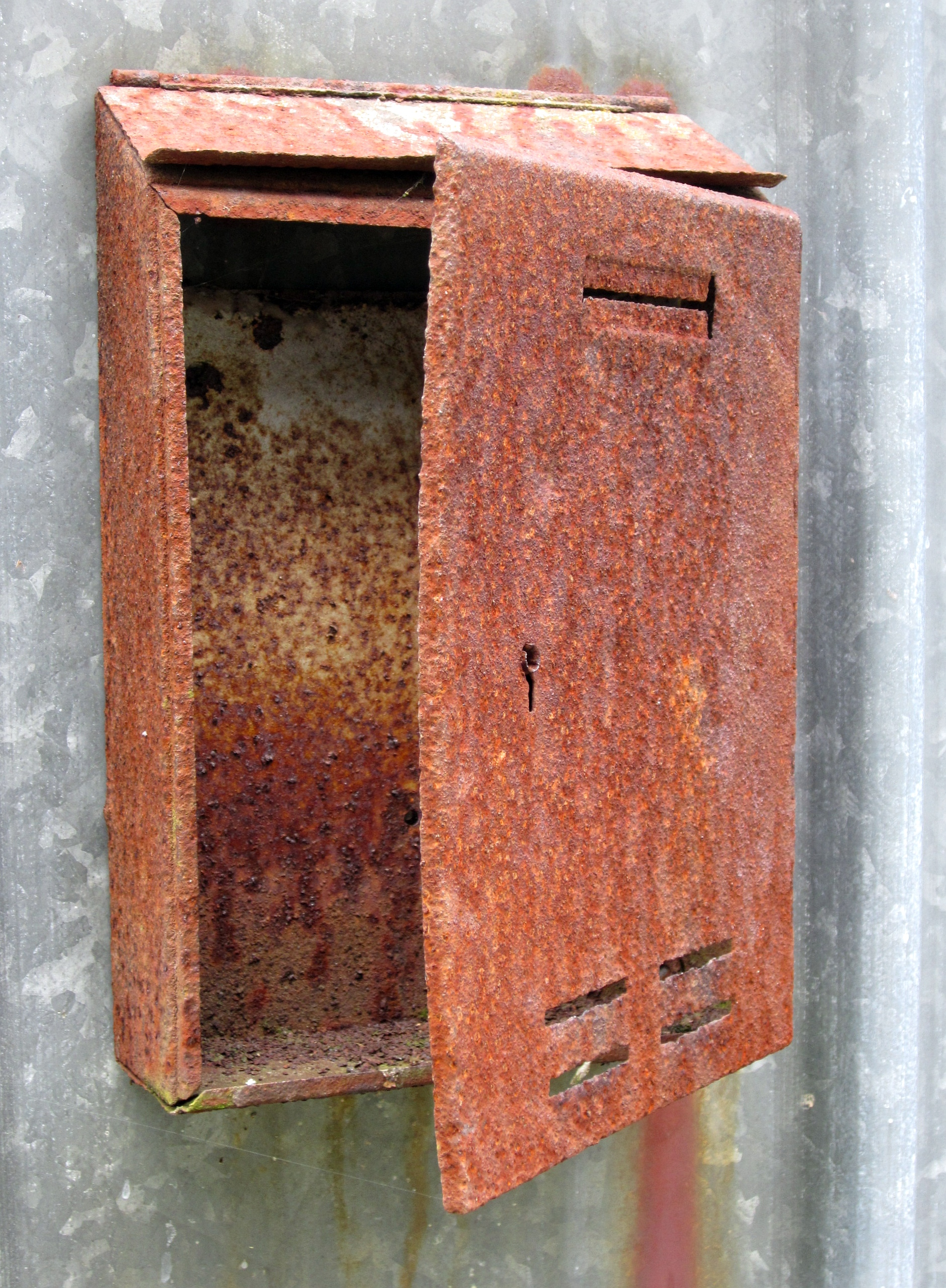 Rusty letter box mounted to a galvanized wall. Note the difference in corrosion.